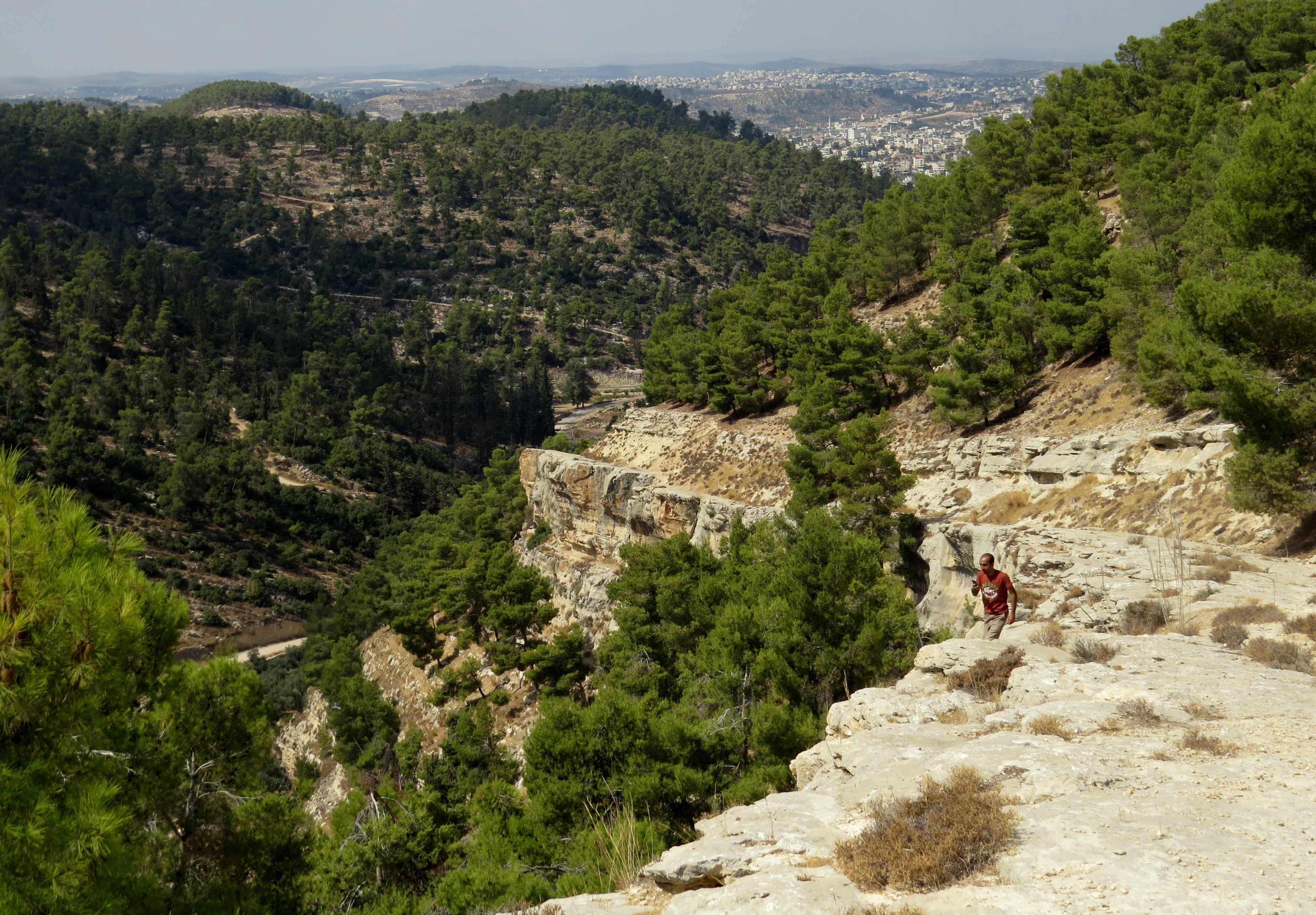 At Wadi al-Quf